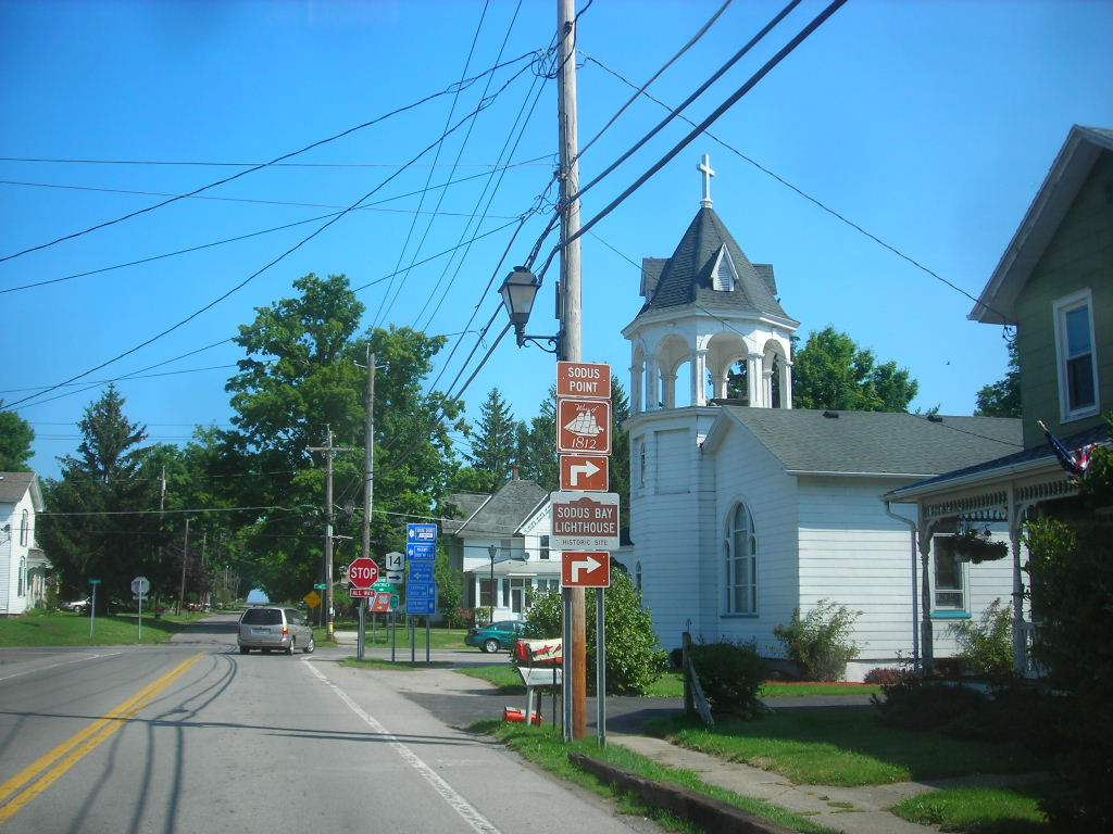 Approaching the junction of Fitzhugh and Bay Streets on New York State Route 14 northbound in Sodus Point. As the signs indicate, the center of Sodus Point and Sodus Bay are accessed by turning right at the junction to stay on NY 14.